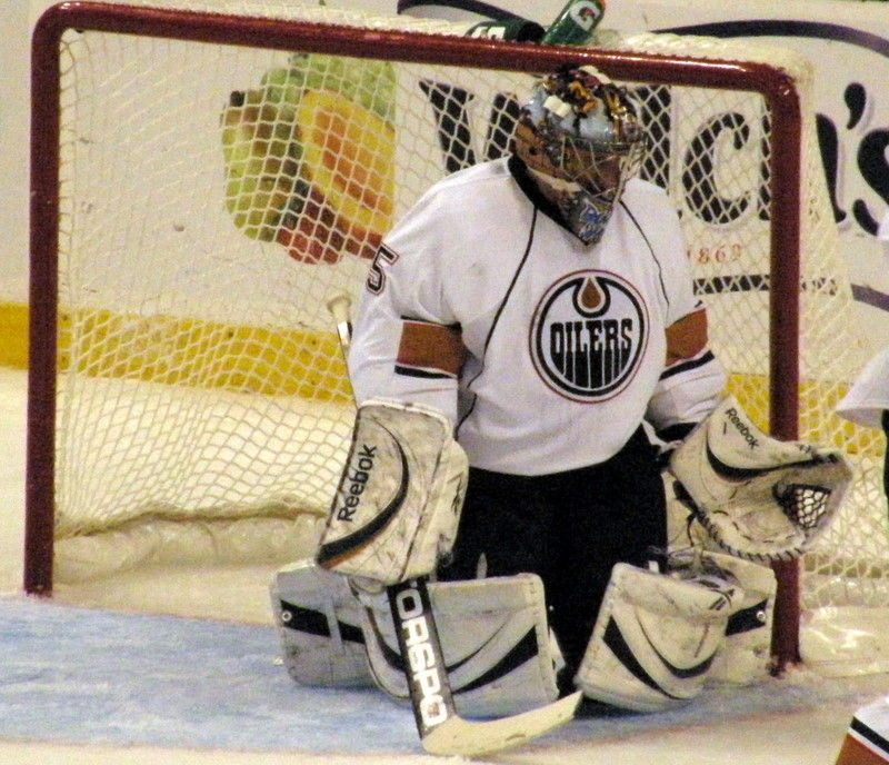 nikolai khabibulin